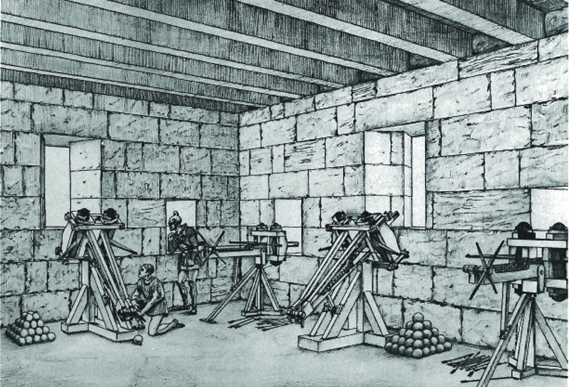 Reconstruction of a Hellenistic artillery tower equipped with torsion catapults.